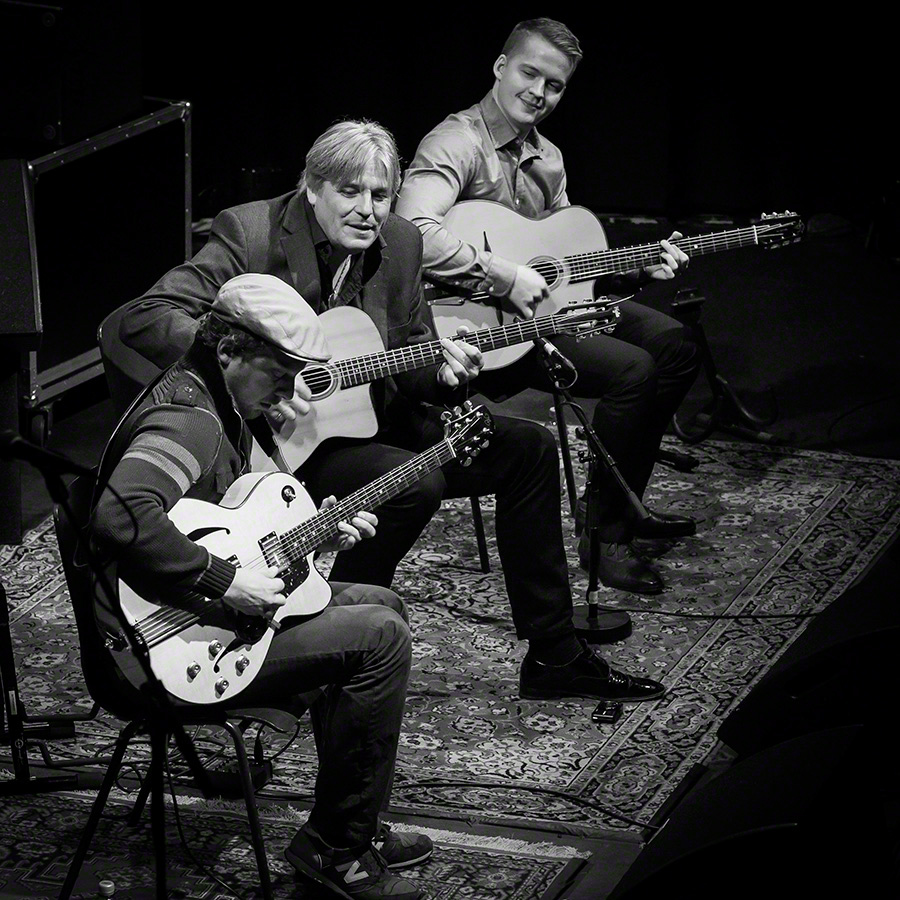 Adrien Moignard, Jon Larsen and Olli Soikkeli performs at Cosmopolite during the Django festival 2016.